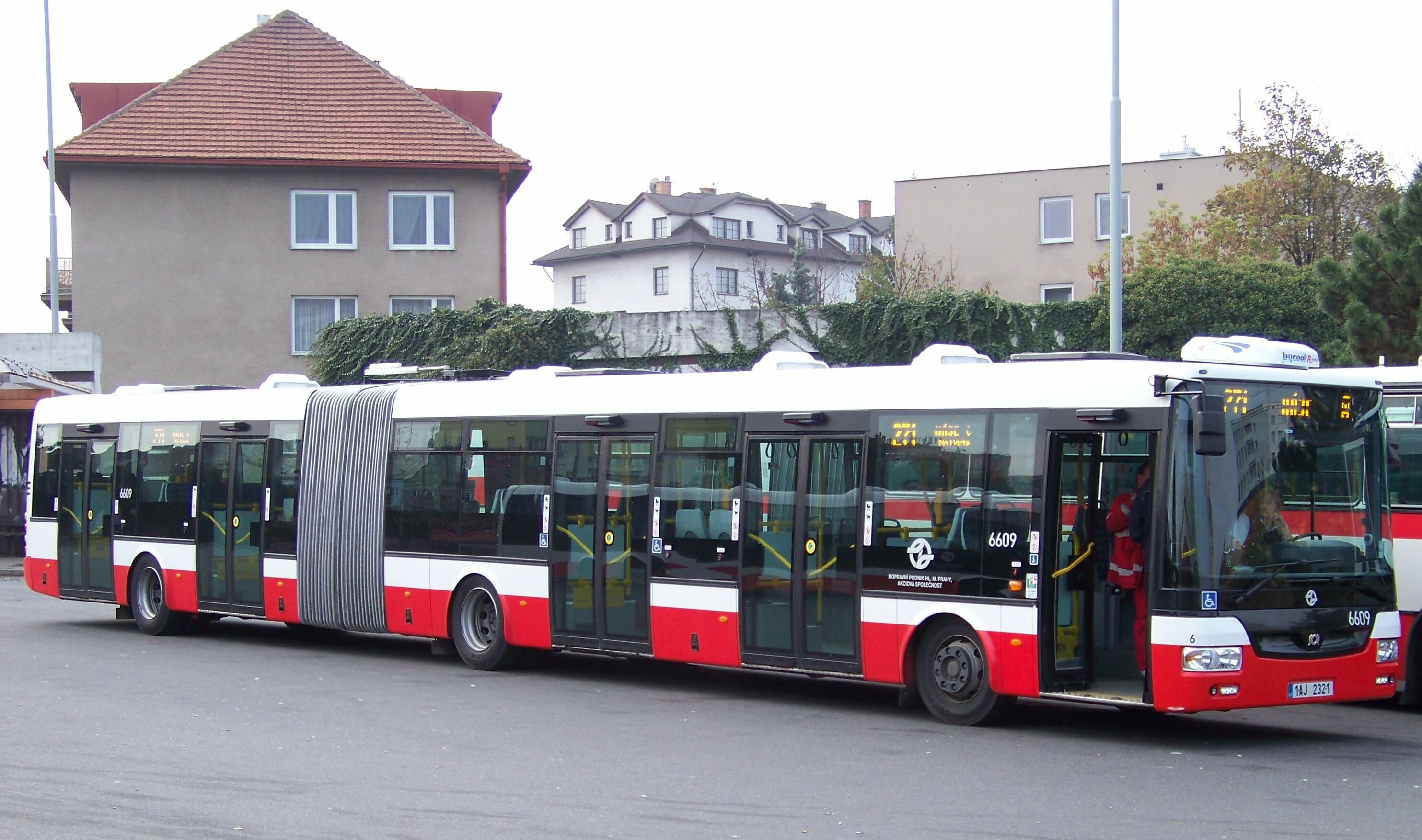 Strašnice, Prague, the Czech Republic. Bus terminal near Skalka metro station. Bus SORCITY NB 18.